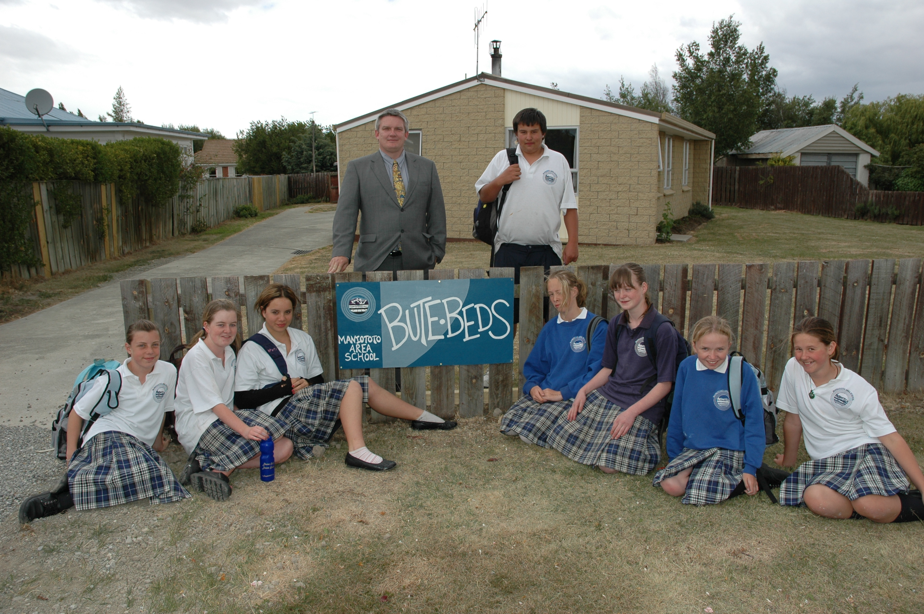 A photograph of the school Bed and Breakfast for linking to the school stub.